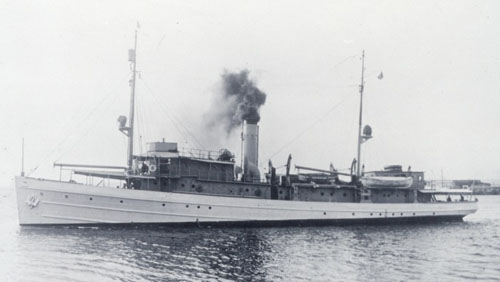 United States Coast and Geodetic Survey survey ship USC&GS Guide